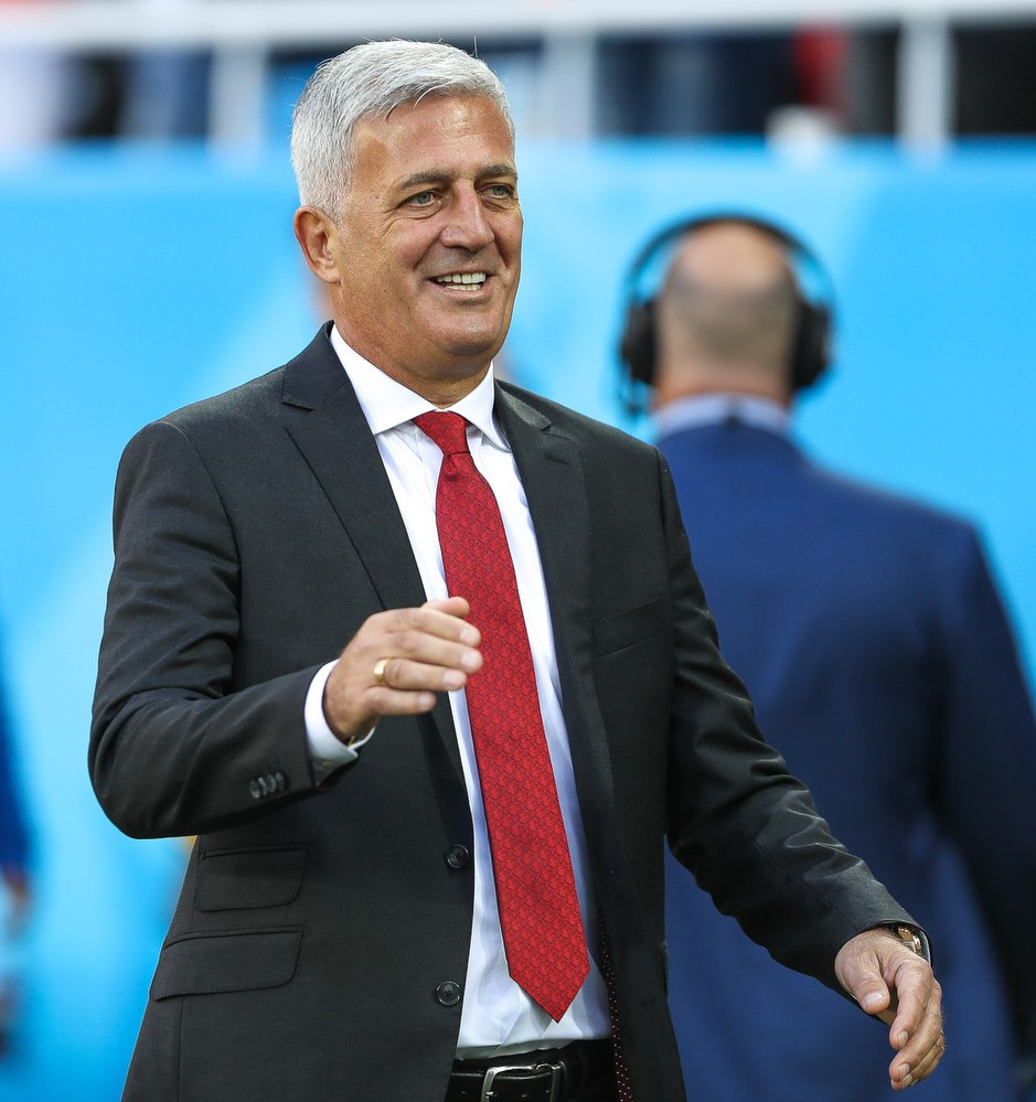 Vladimir Petković